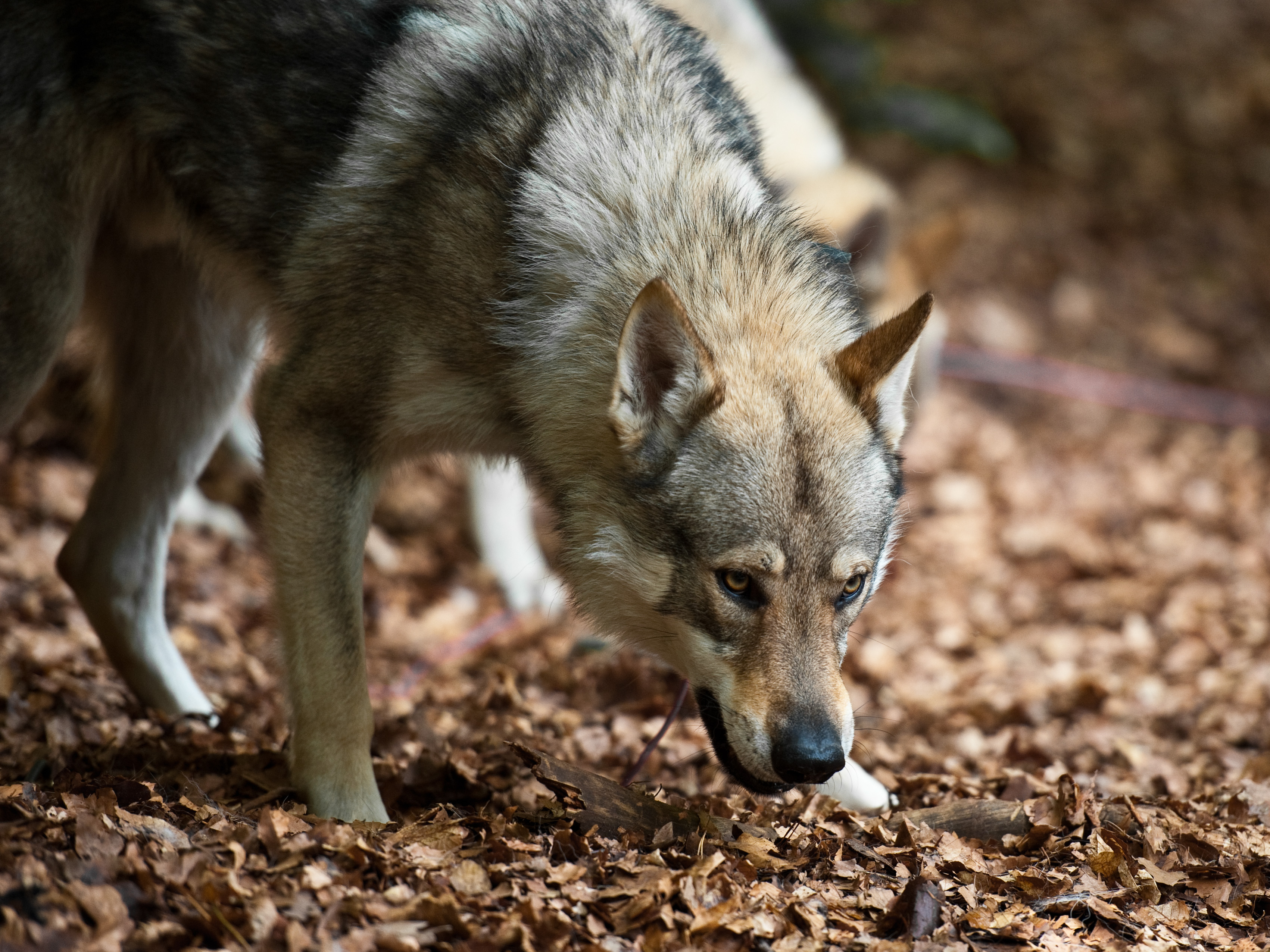 The Czechoslovakian Wolfdog is a relatively new breed of dog from Eastern Europe. It is a cross between a German Shepherd and a Eurasian wolf. It looks mostly like a wolf but behaves like a dog. Until 2008 it was classified a 'Dangerous Wild Animal' in the UK.